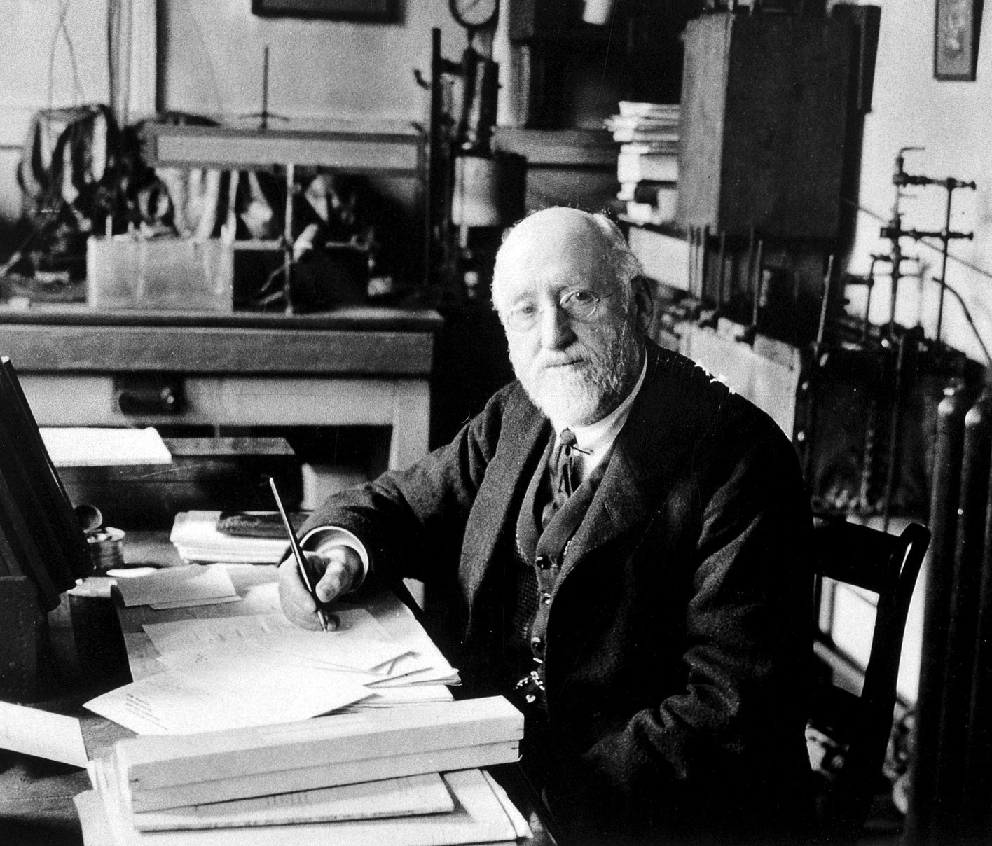 William Bayliss